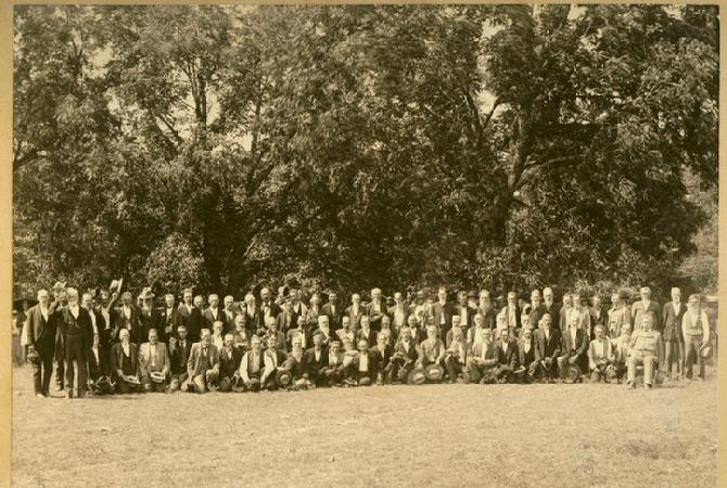 Reunion of 34th Arkansas Infantry Regiment, 1895-1905, near Cane Hill, Arkansas.